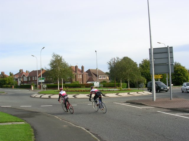 Owens Corner. Cyclists approaching Owens Corner roundabout at Appleton. The major road here (running top to bottom) is the A49, London Road. The section beyond the roundabout follows the course of the old Roman road leaving Warrington for the south. The Roman road continues south from the roundabout along what is now a public footpath that leaves the picture roughly where the car is on the rhs. SJ61788340.